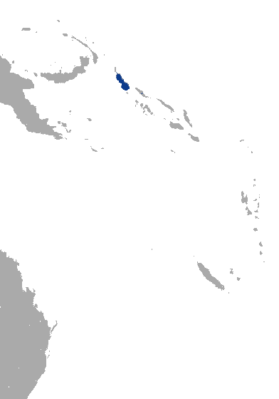 Bougainville Monkey-faced Bat (Pteralopex anceps) range